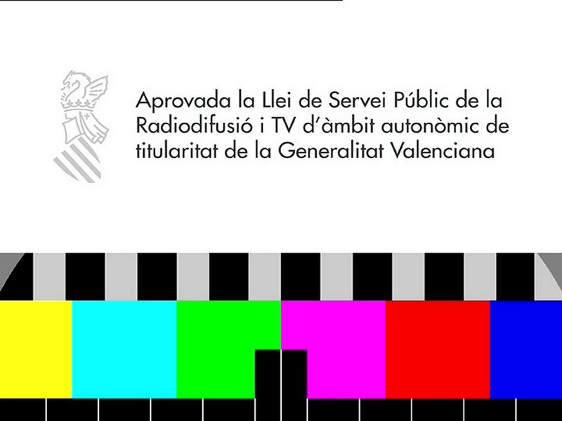 Testcard of the Valencian Media Corporation broadcasted via DTT channels until the beginning of its activity.